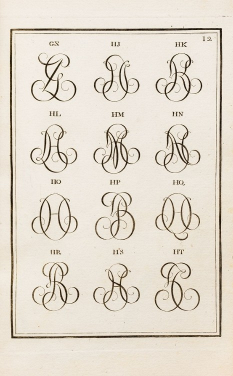 A page of an anonymous book of cyphers (Paris, c. 1780).